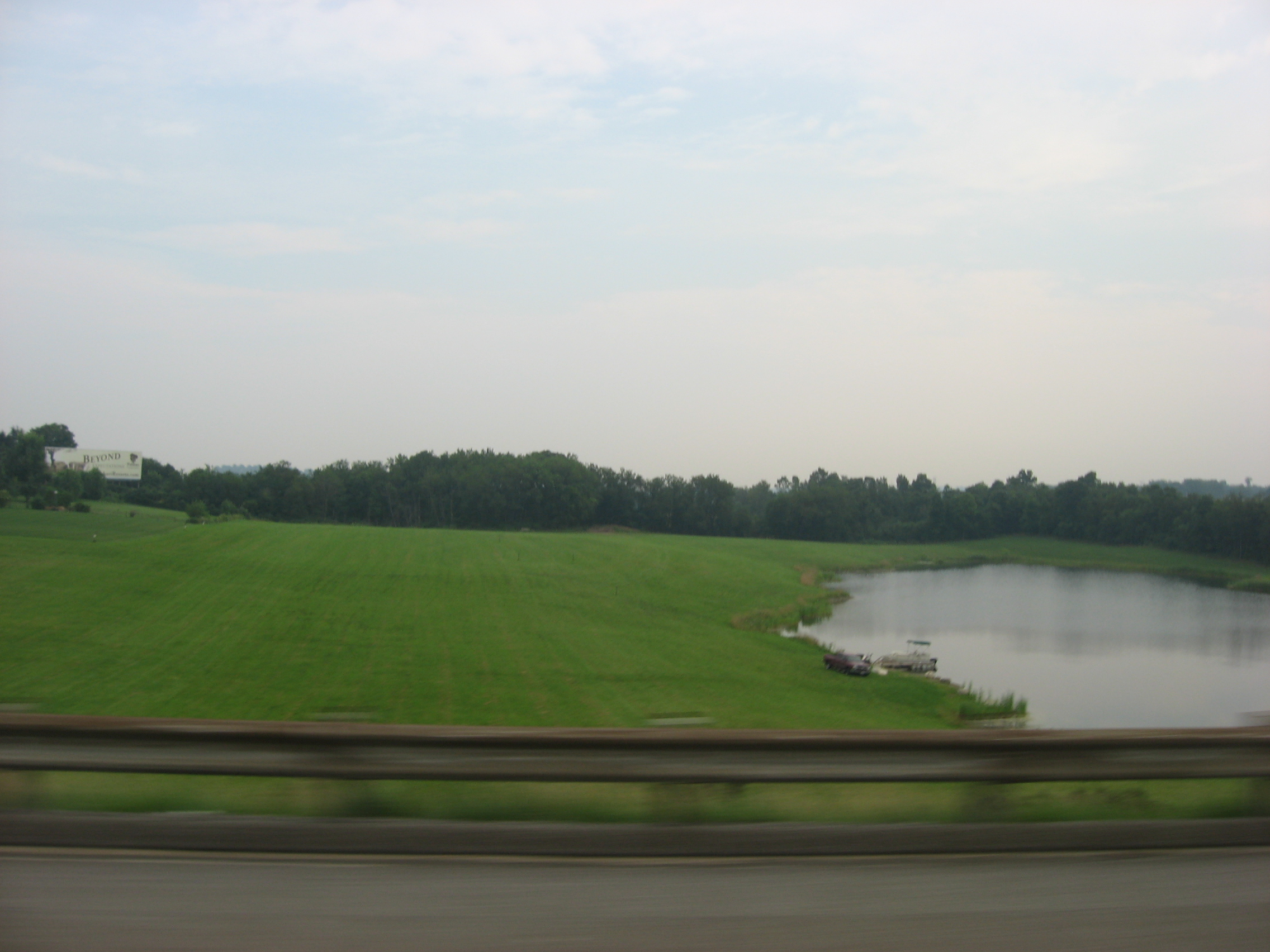 Countryside in western Shalersville Township, Portage County, Ohio, United States. Picture taken looking northward from Interstate 80 (the Ohio Turnpike).